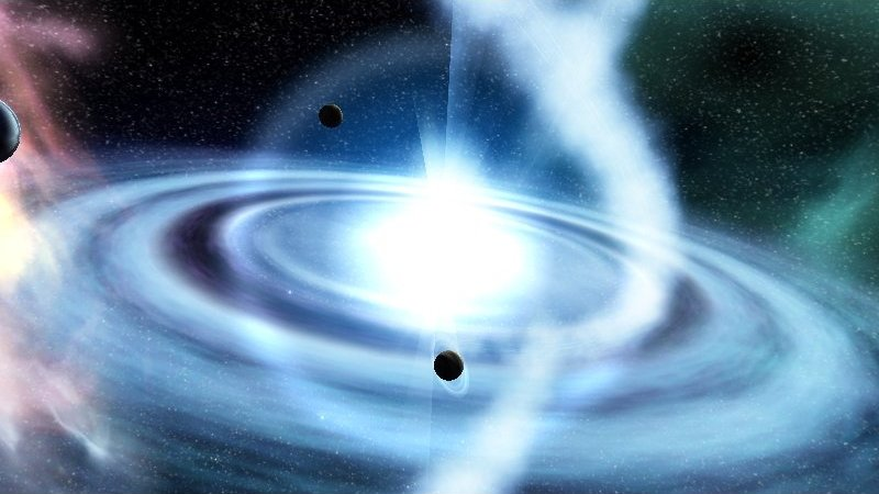 Screenshot from the Conspiracy 64k intro Beyond.